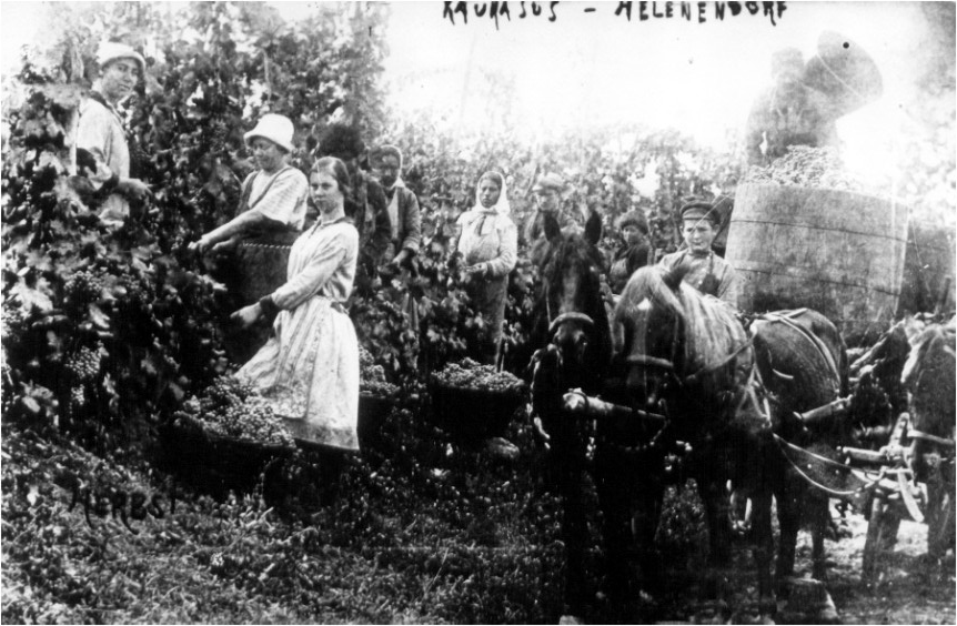 Grape gathering in Helenendorf (today - Goygol town in Azerbaijan)